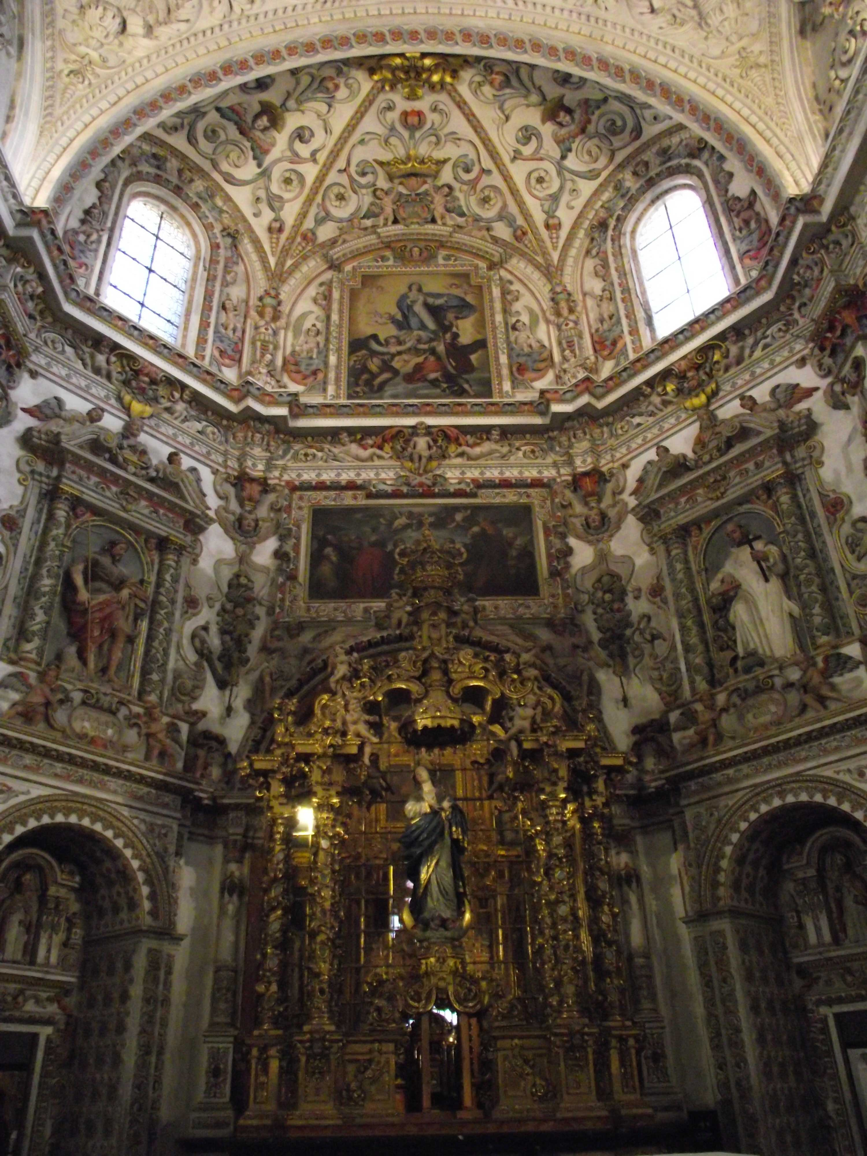 Charter house of Granada, XVI-XVIII Century